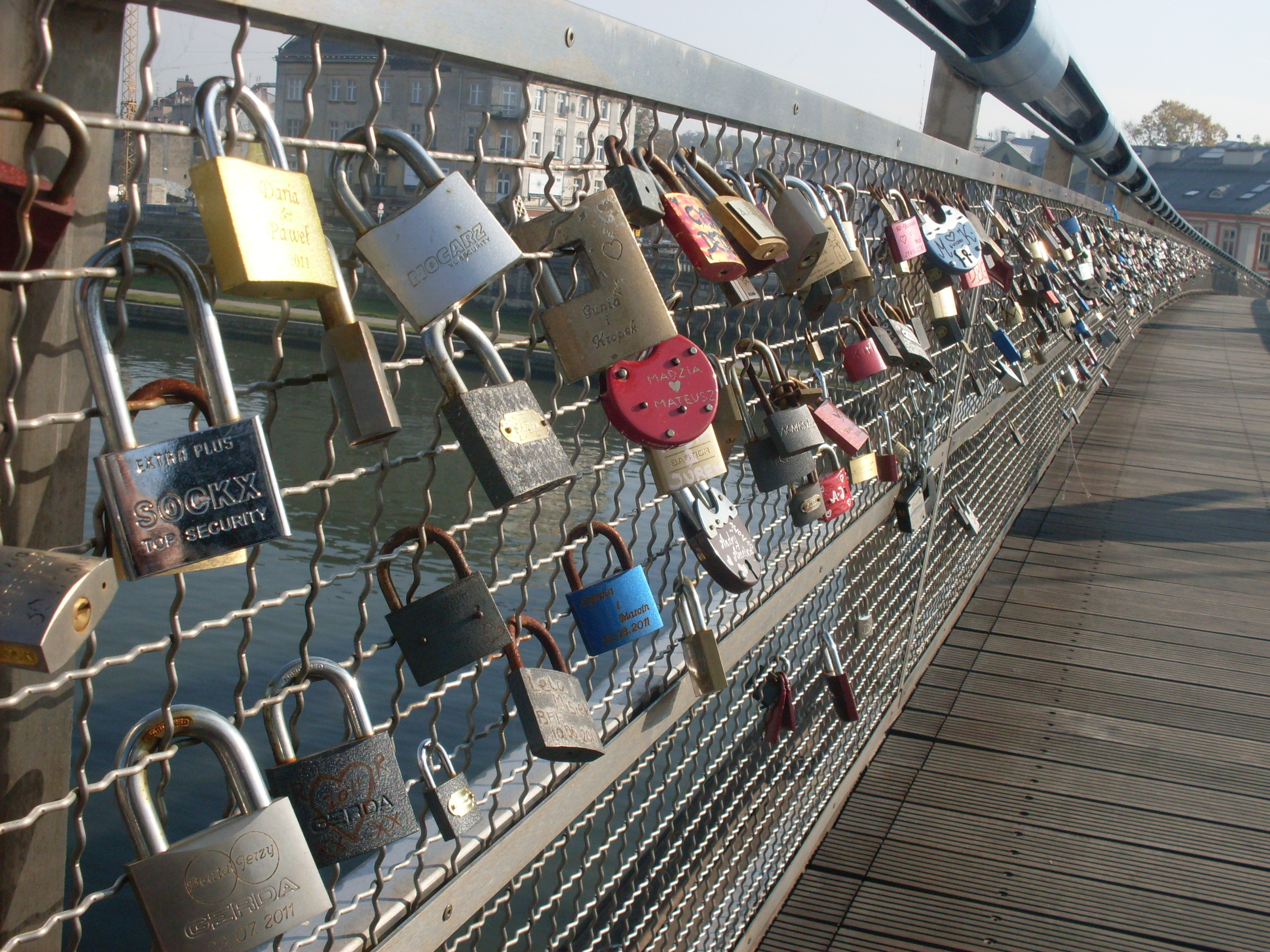 Father Bernatek footbridge in Kraków